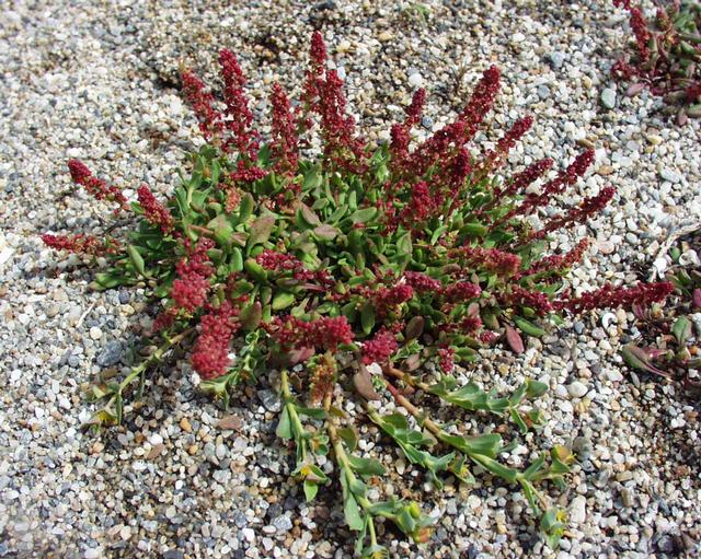 (en) Horned Dock (Rumex bucephalophorus), a photography originating of the internet site The accord of the autor, H. Brisse, is here. (fr) Rumex Tête-de-boeuf (Rumex bucephalophorus), une photographie issue du site internet L'accord de l'auteur, H. Brisse, se situe ici. (it)Rómice Capo di bue ; (de)Ochsenkopf-Ampfer ; (es)Acedera de lagarto